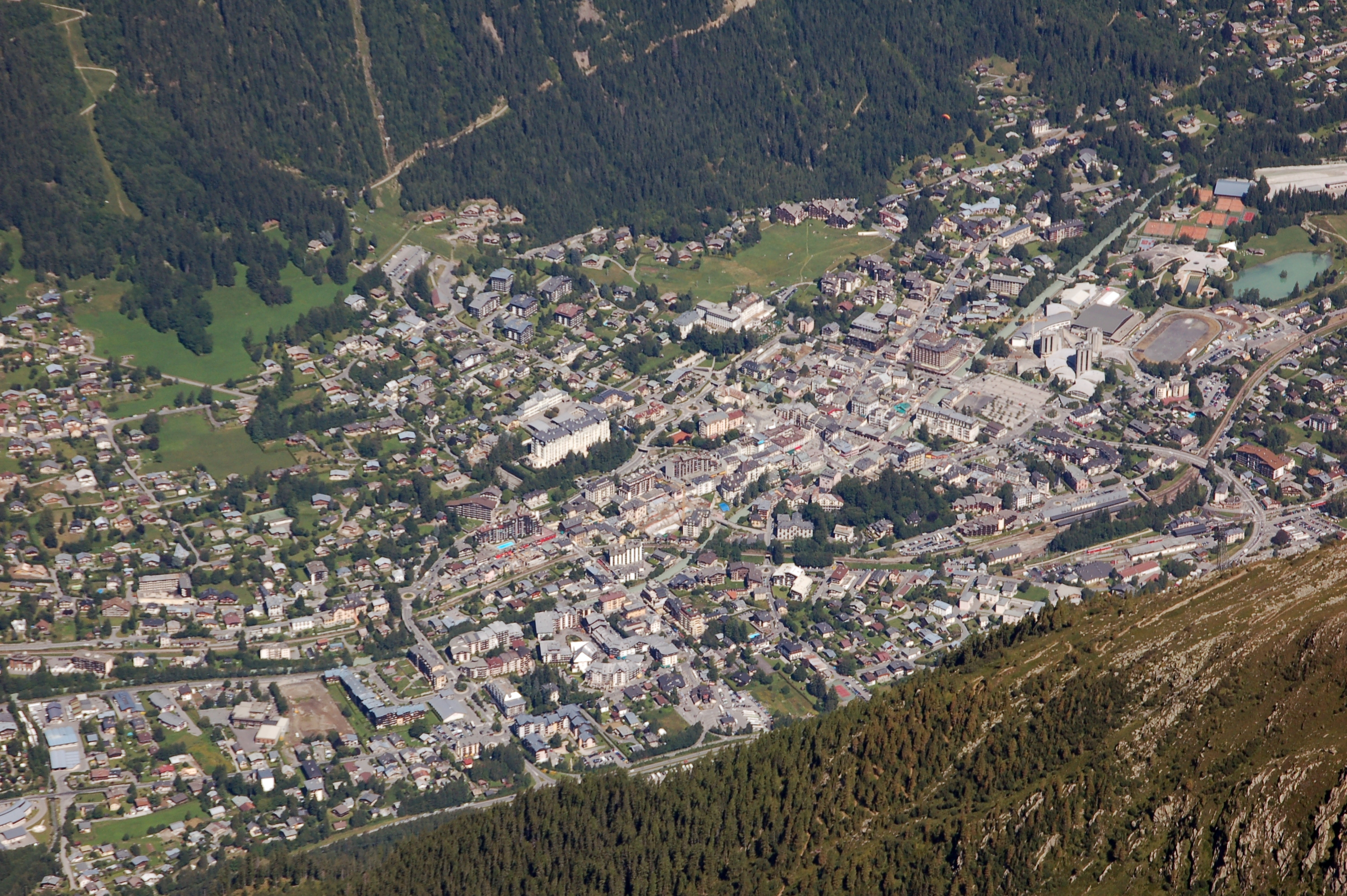 Chamonix, view from the mid-station of Aiguille du Midi, Haute-Savoie, France